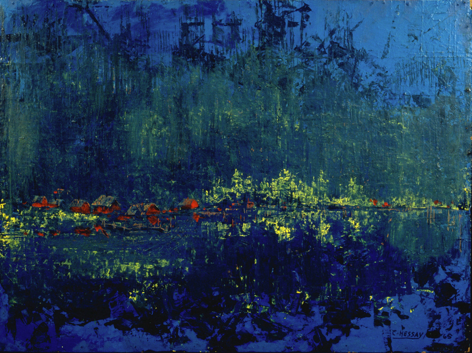 Forgotten Logging Camp, a 1965 painting by Carle Hessay (1911-1978)